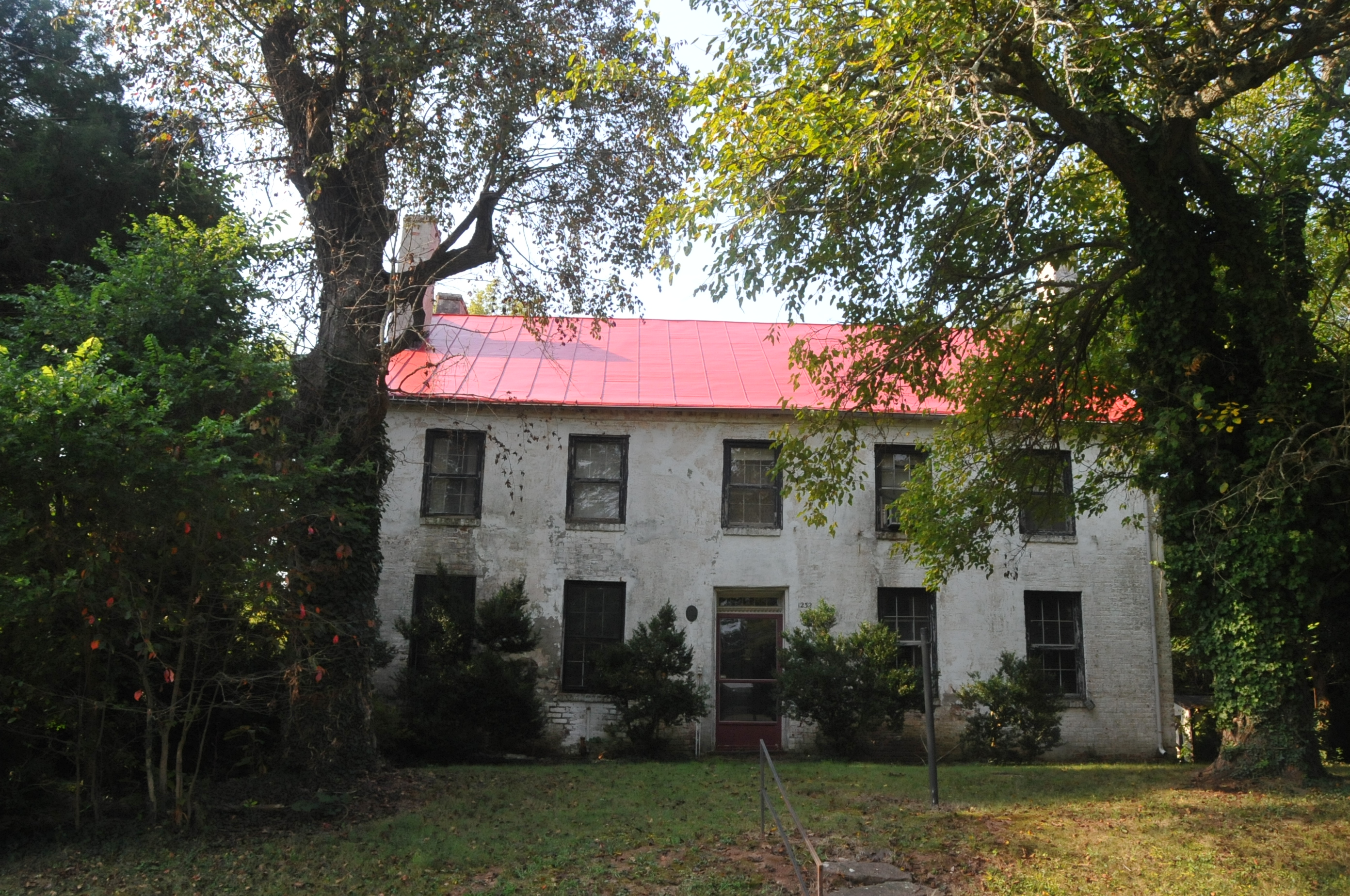 OLDEST HOUSE IN BRENTSVILLE BUILT IN 1822; FLEMISH BOND BRICKWORK ON THE FRONT WHICH HAS BEEN PAINTED OVER